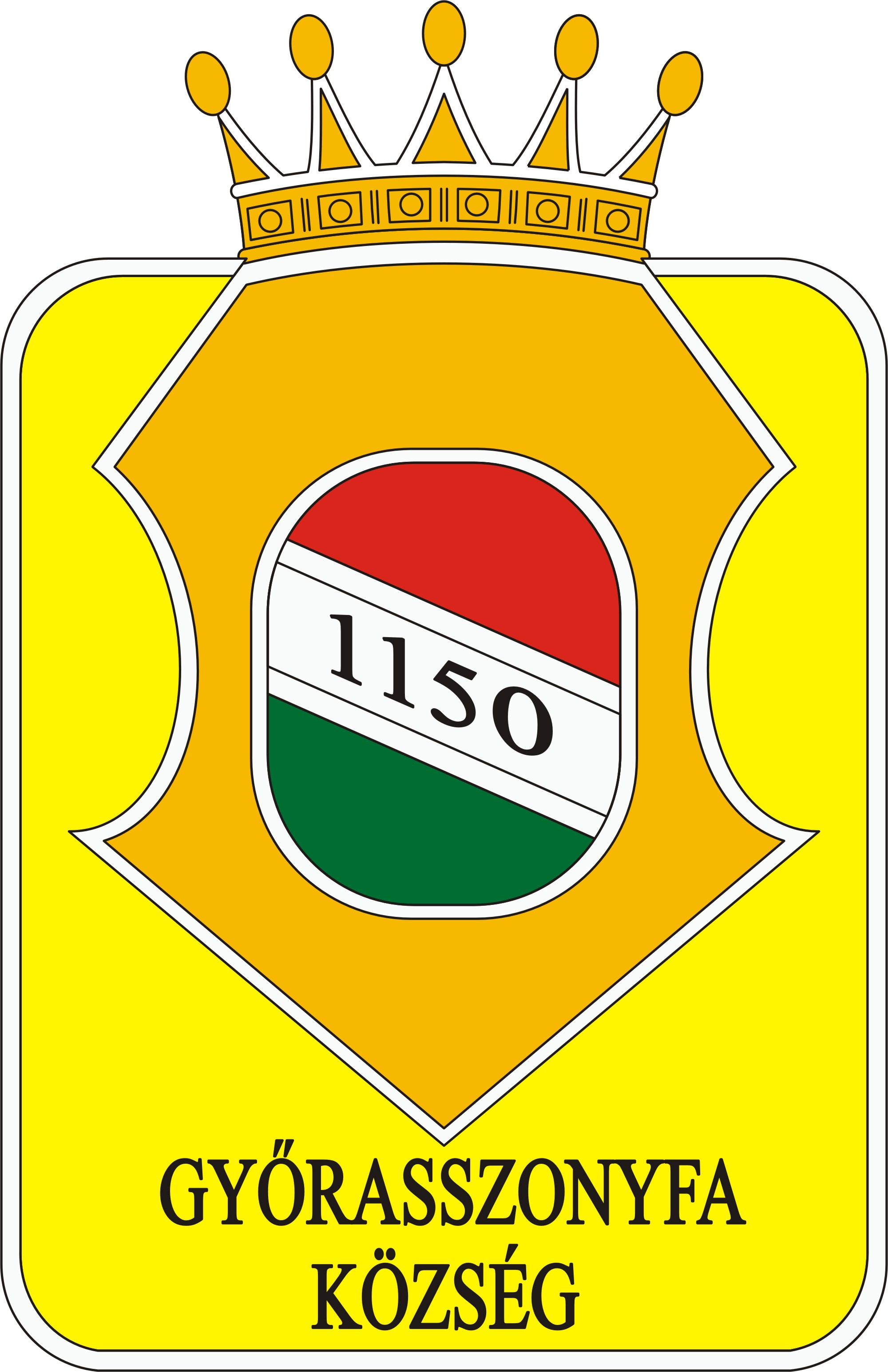 Coat of arms of Győrasszonyfa, Hungary